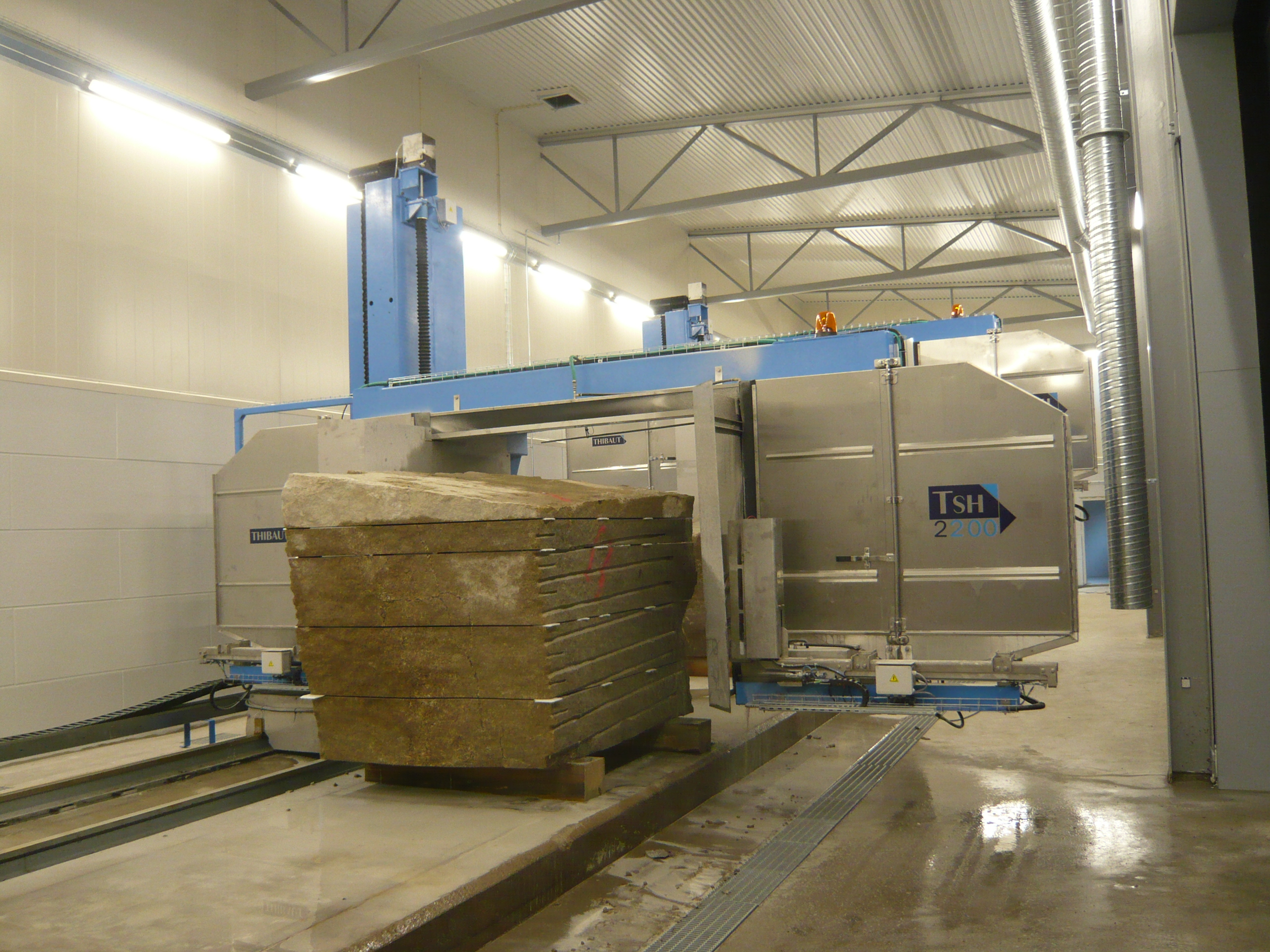 The TSH2200 is a revolution in primary sawing because it saws the blocks horizontally with an automatic wedging insert system.